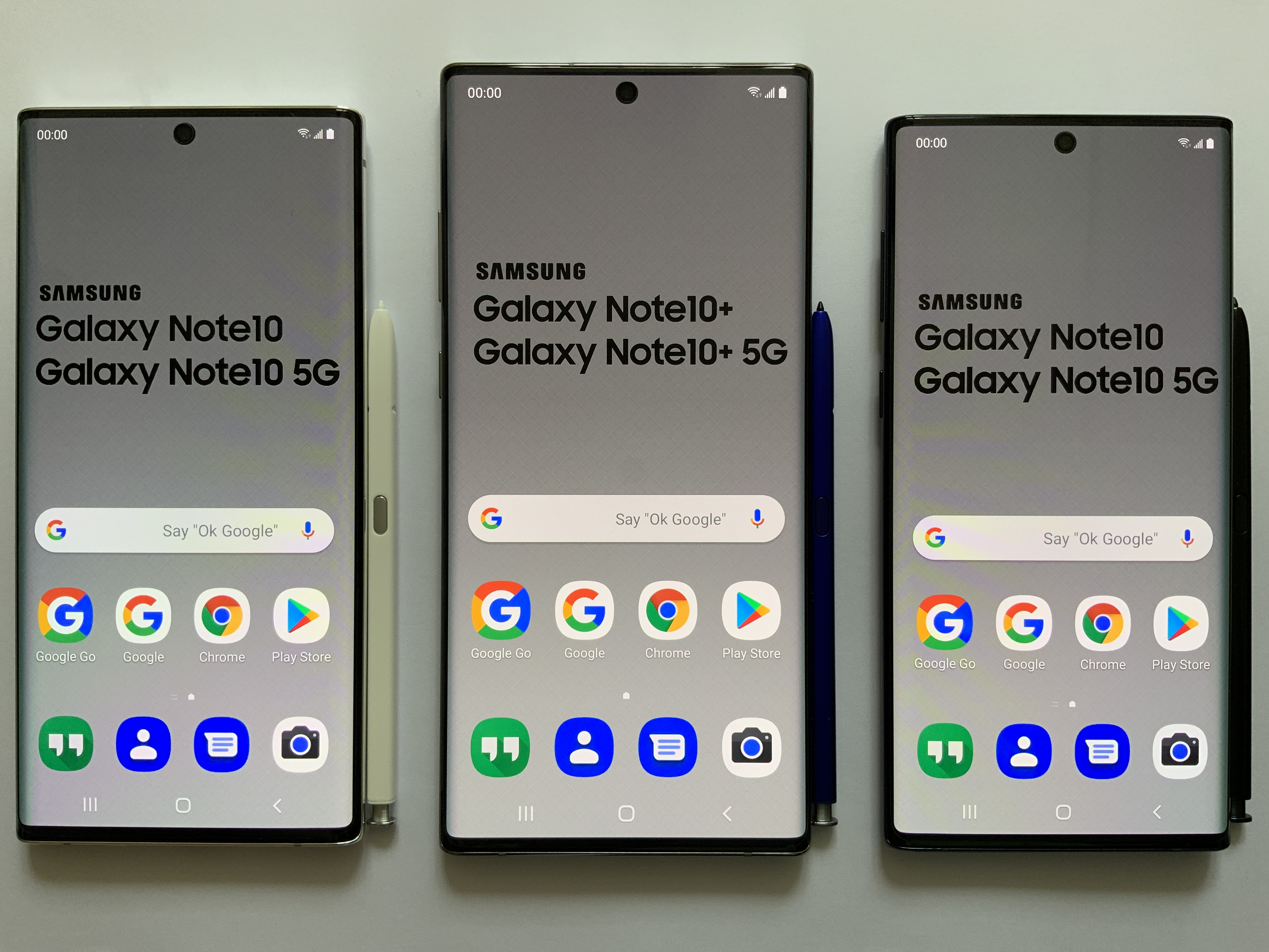 SAMSUNG Galaxy Note10 SAMSUNG Galaxy Note10 5G SAMSUNG Galaxy Note10+ SAMSUNG Galaxy Note10+ 5G